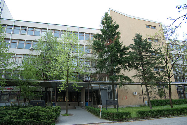 Faculty for mathematics and sciences in Novi Sad